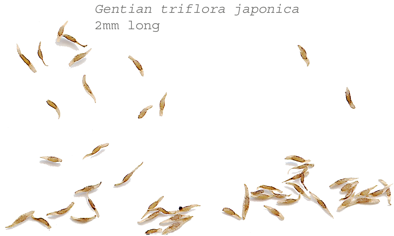 Self made scan of seeds of Gentiana triflora japonica.